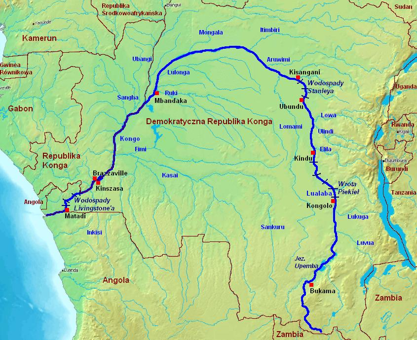 Map of Congo River — in West-Central Tropical Africa.